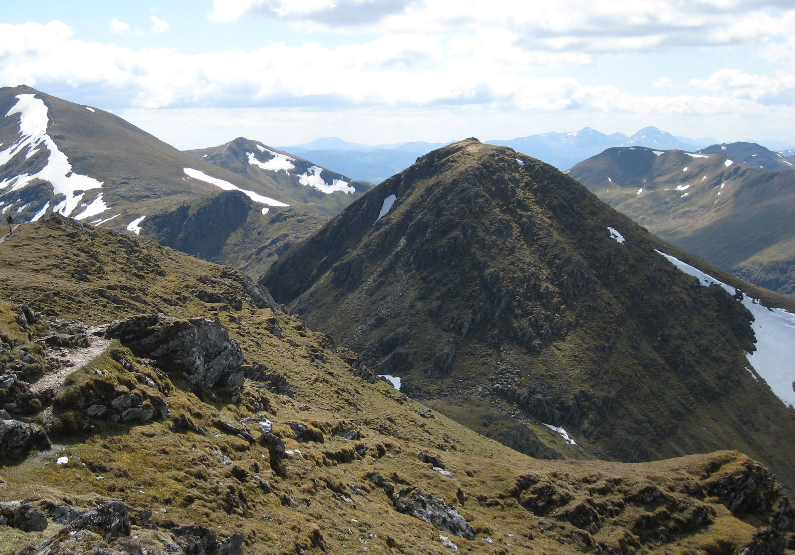 An Stuc, from Meall Garbh. Ben Lawers is visible at top left.